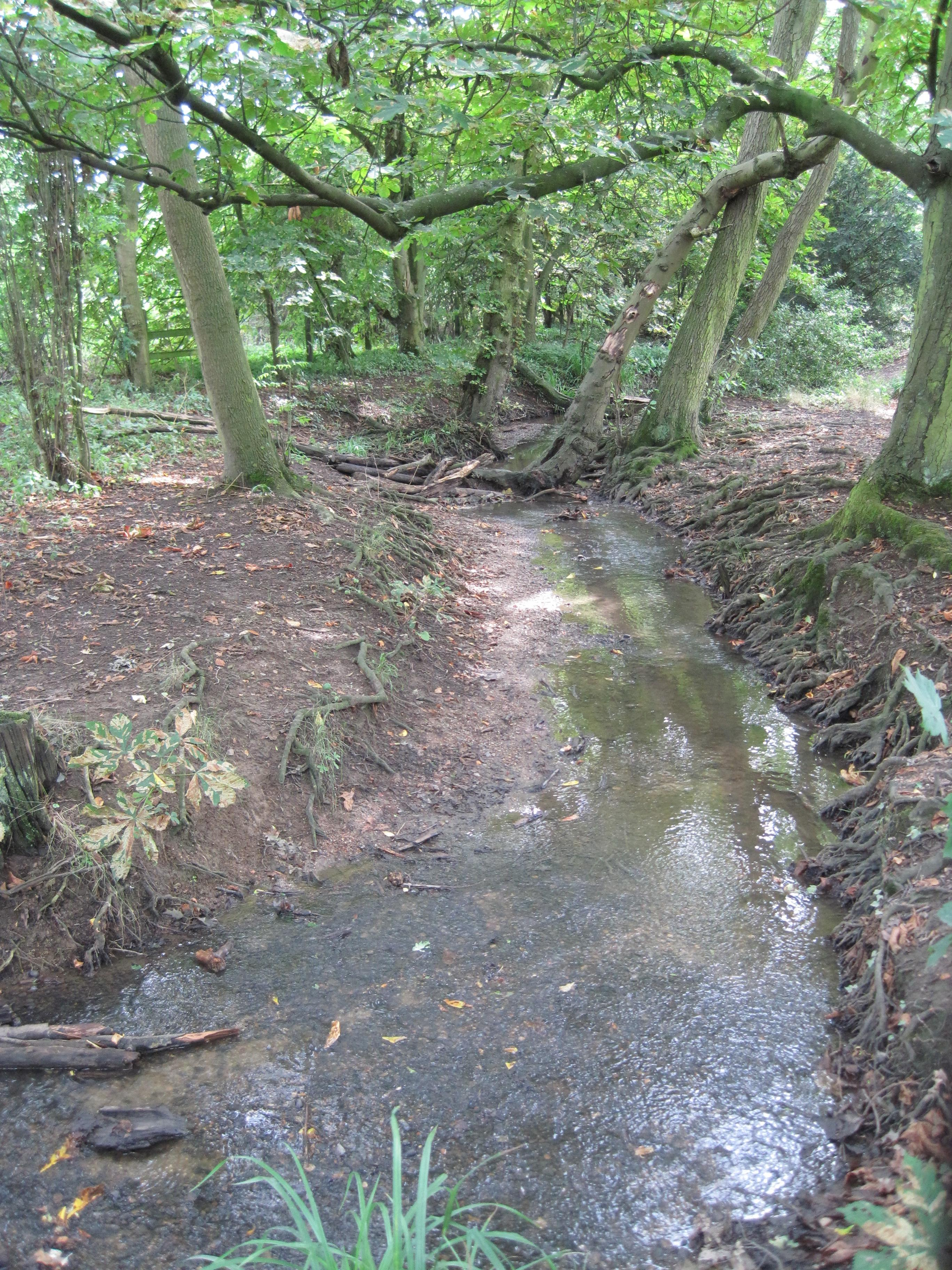 Folly Brook in woods, near Darland's Lake, Totteridge, Barnet, London